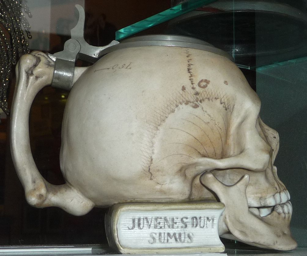 Gaudeamus igitur, iuvenes dum sumus ("Let us rejoice, while we are young") in Munich (Karl Valentin-Museum)